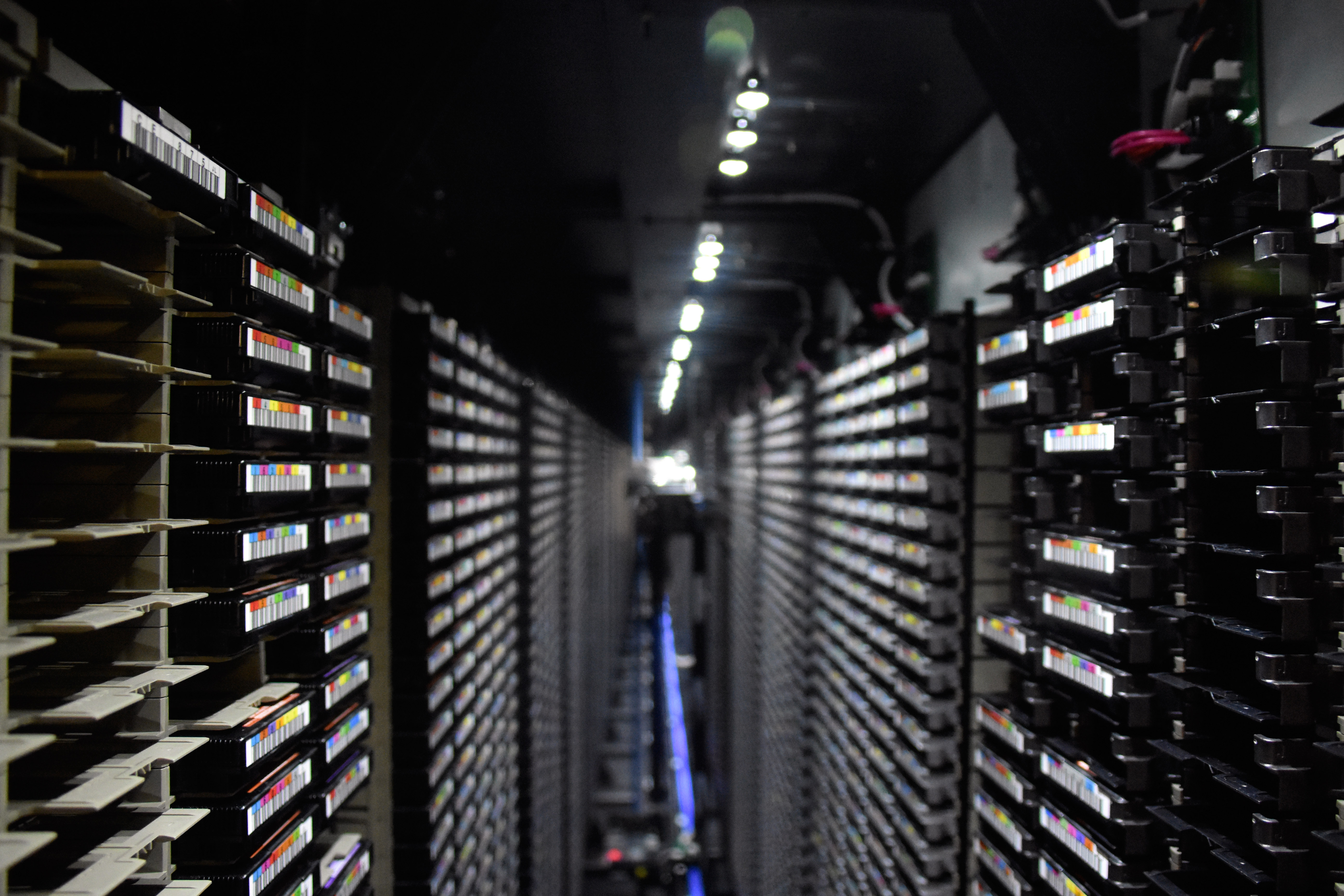 Guided Tour trough the CERN Computer Center | Le Centre de calcul du CERN | CERN Rechenzentrum